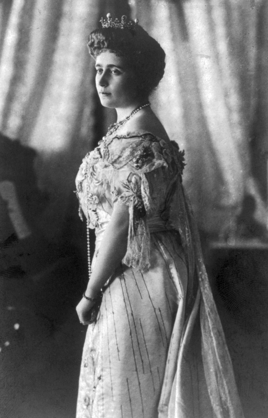 Crown Princess of Montenegro, three-quarter length portrait, standing, facing left